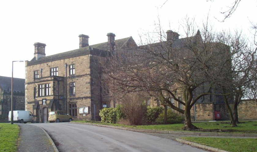 Staveley Hall, Derbyshire. The picture is clipped to remove the date of 19th Feb 2003 - presumably the date it was taken.